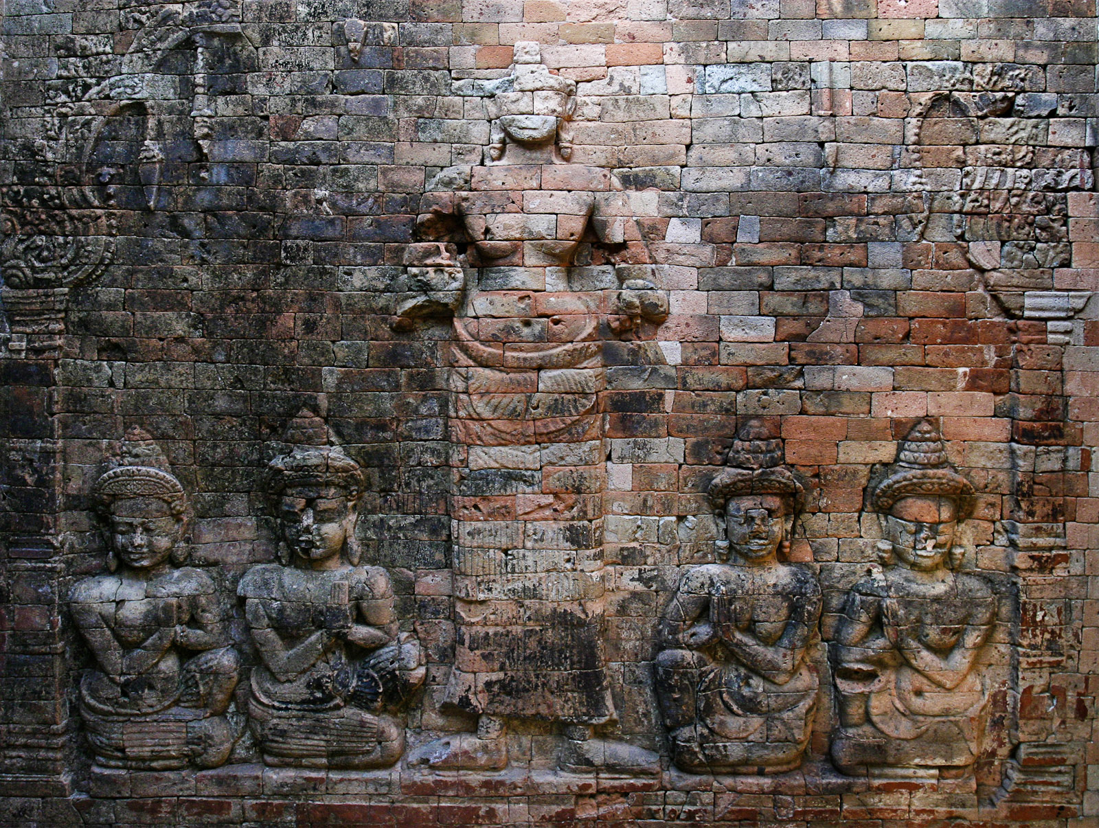 North Shrine, west side